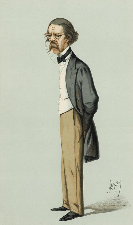 Caricature of Sir Henry Thompson (1820-1904). Caption read: "Cremation"[1][2].